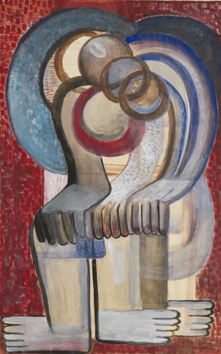 Żarnowerówna - Expectation 1946